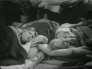 Film still Women (1940)